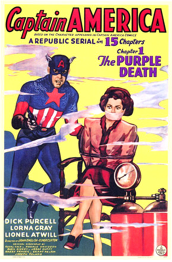 Poster for the American film serial Captain America (1944). The item has no copyright markings on it as can be seen in the links above. At bottom is Country of origin USA, Morgan Litho Corp, Cleveland, O--they printed the poster-- and some numbers that look to be associated with the printing of the poster.